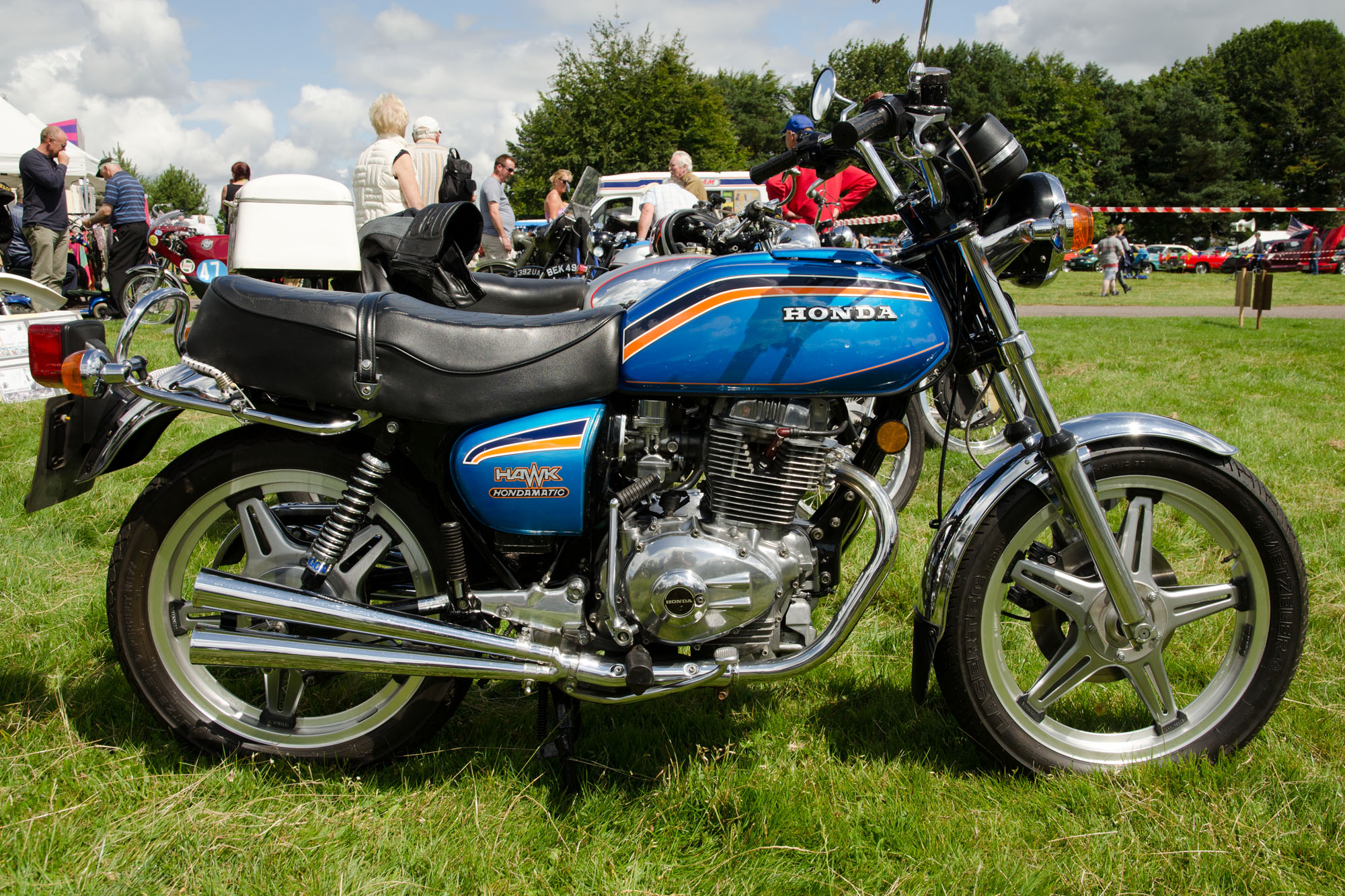 Honda CB400A Hawk Hondamatic (1978) at Capesthorne Hall Classic Car Show in 2014